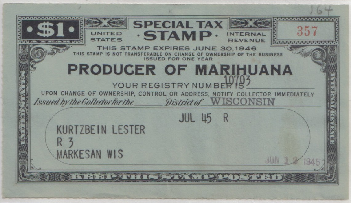 United States Special Tax Stamp -- Producer of Marihuana -- July, 1945. It was probably related to the U.S. Hemp for Victory campaign, which allowed production of hemp for the U.S. WWII effort. Transferred to Commons from English Wikipedia.